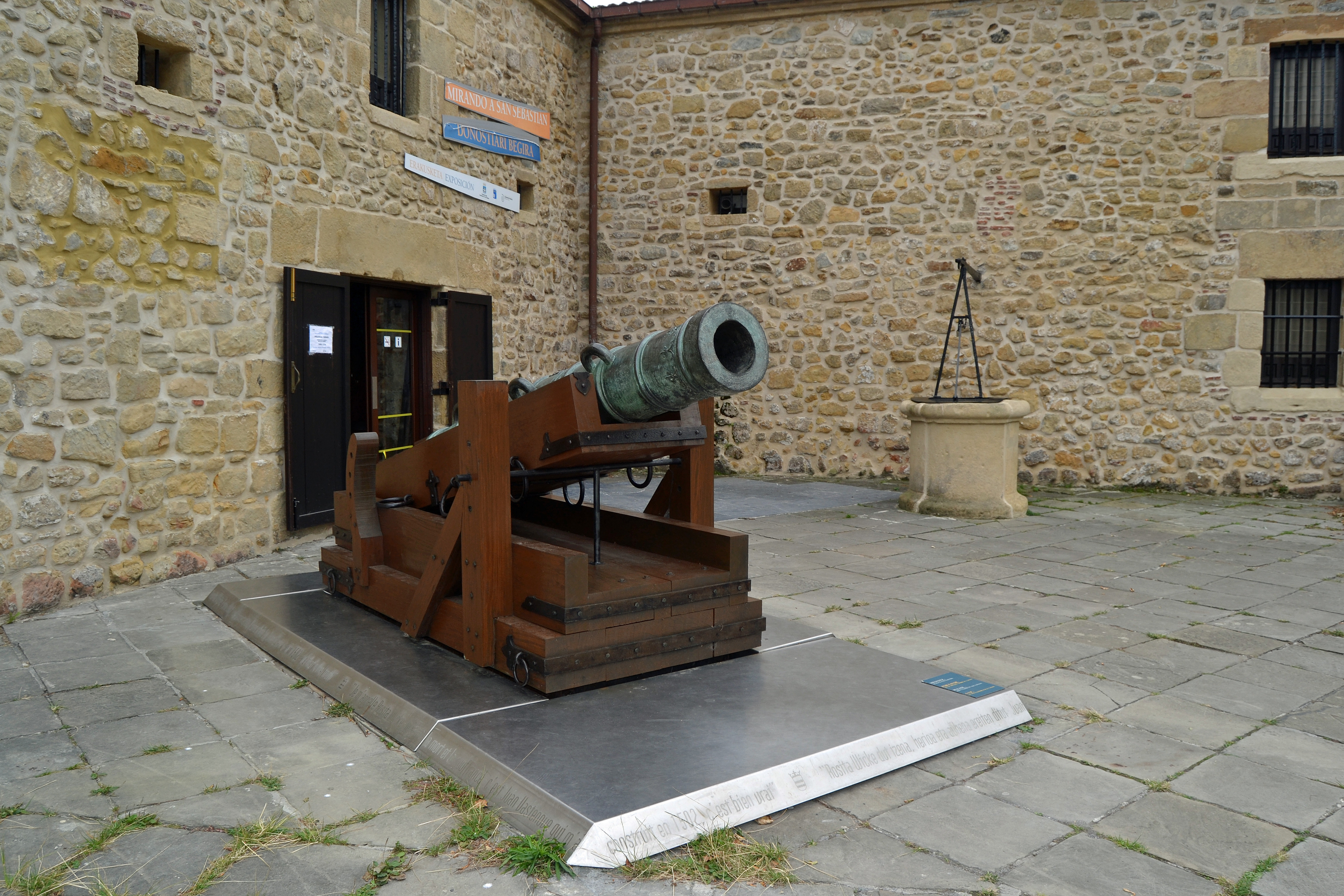 Castle of Mota or Urgull Castle. Donostia-Sant Sebastian, Gipuzkoa. Basque Country.